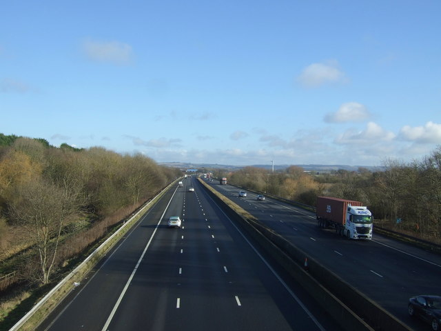 M62 towards Hull, East Riding of Yorkshire, England.At Newport.